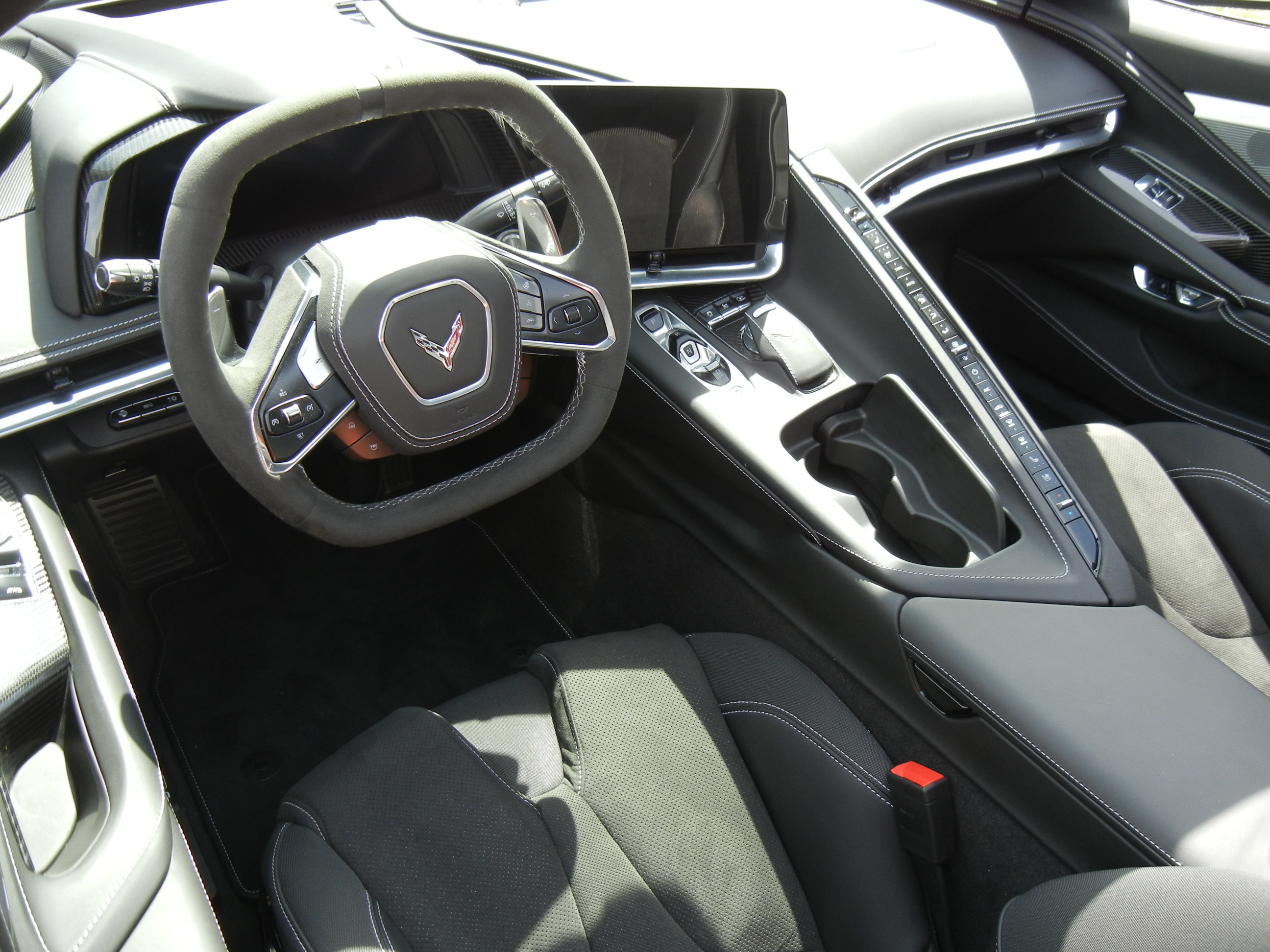 Corvette C8 interior